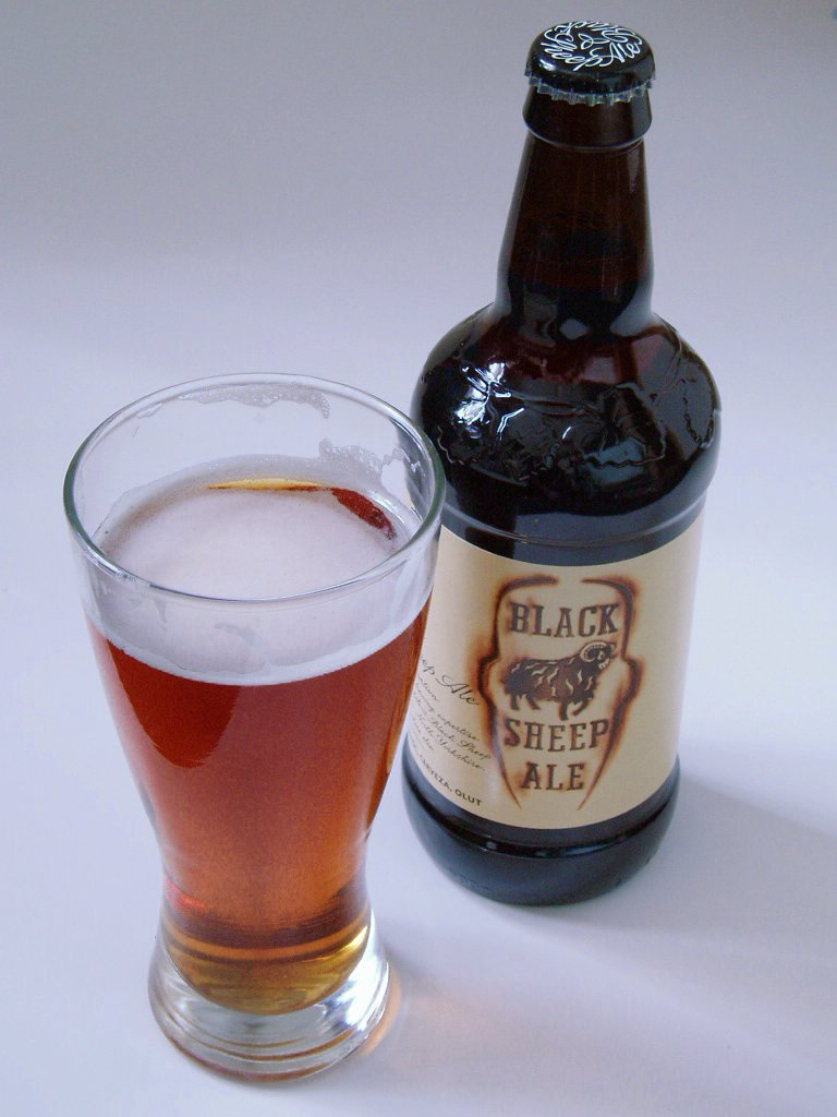 Black Sheep from Black Sheep Brewery